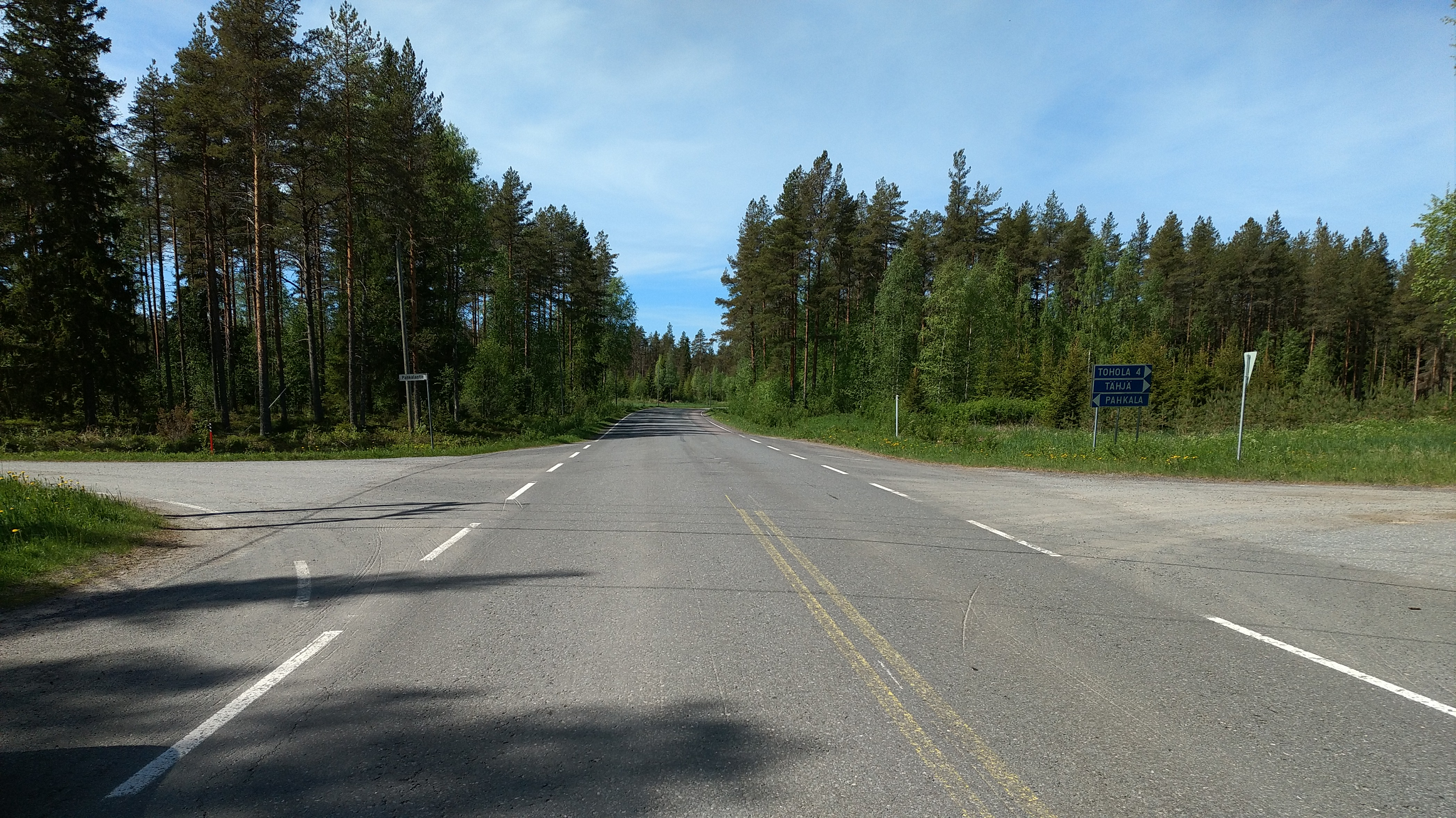 The regional road 786 in Merijärvi, Finland, at the crossing of Pahkala and Niemelänperä, seen towards Kalajoki in the West.